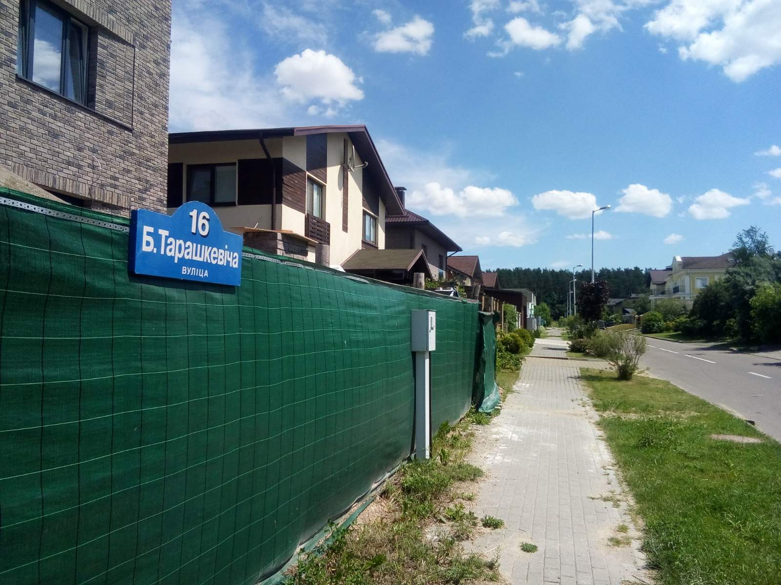 Houses under construction on Branislaw Tarashkyevich Street in Minsk (Belarus, 2020). View towards Sliapianski forest.